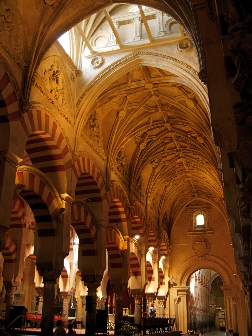 Cordoba Cathedral Nave